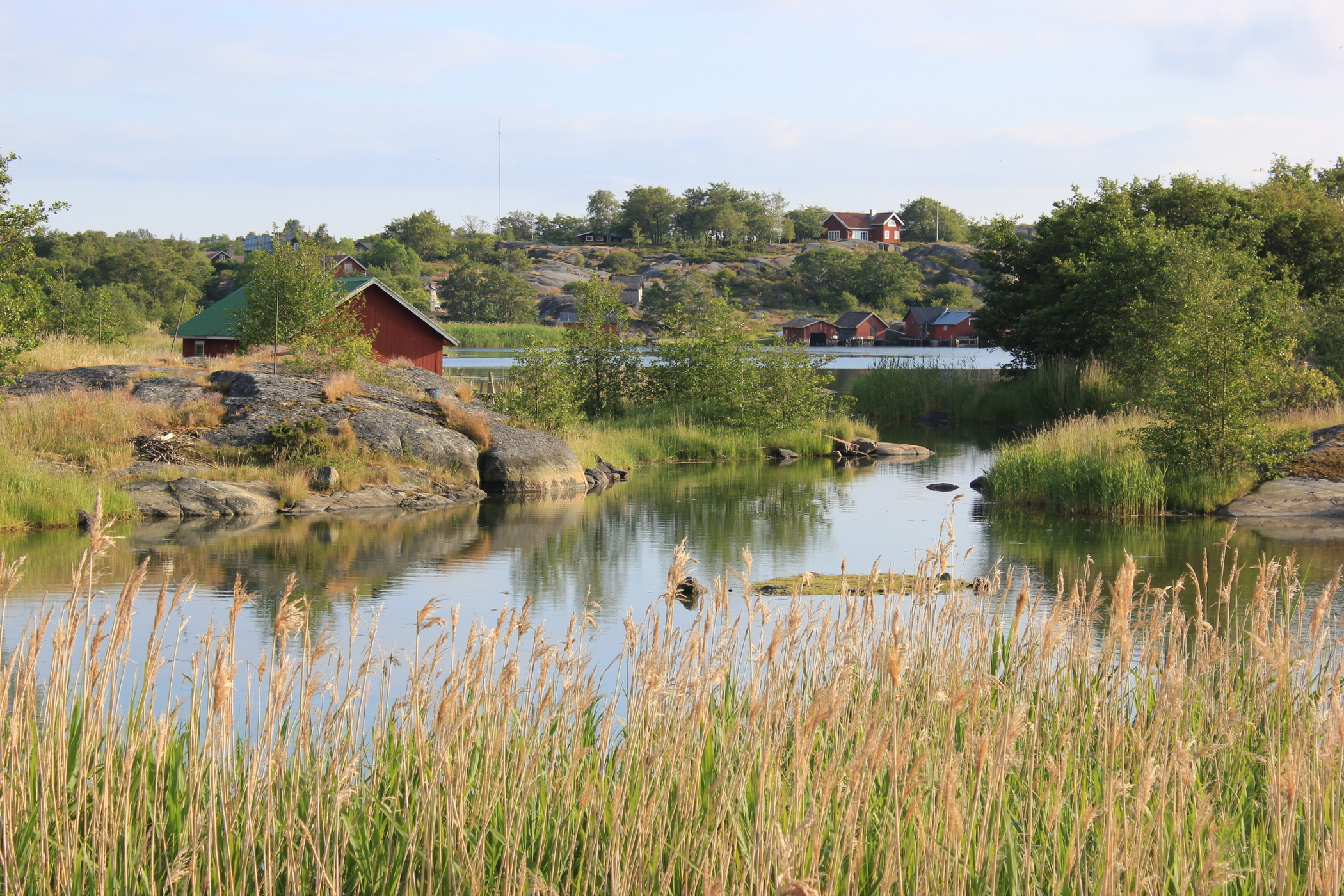 On Kökar island, Åland.